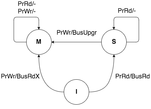 State diagram showing bus transactions for MSI protocol.